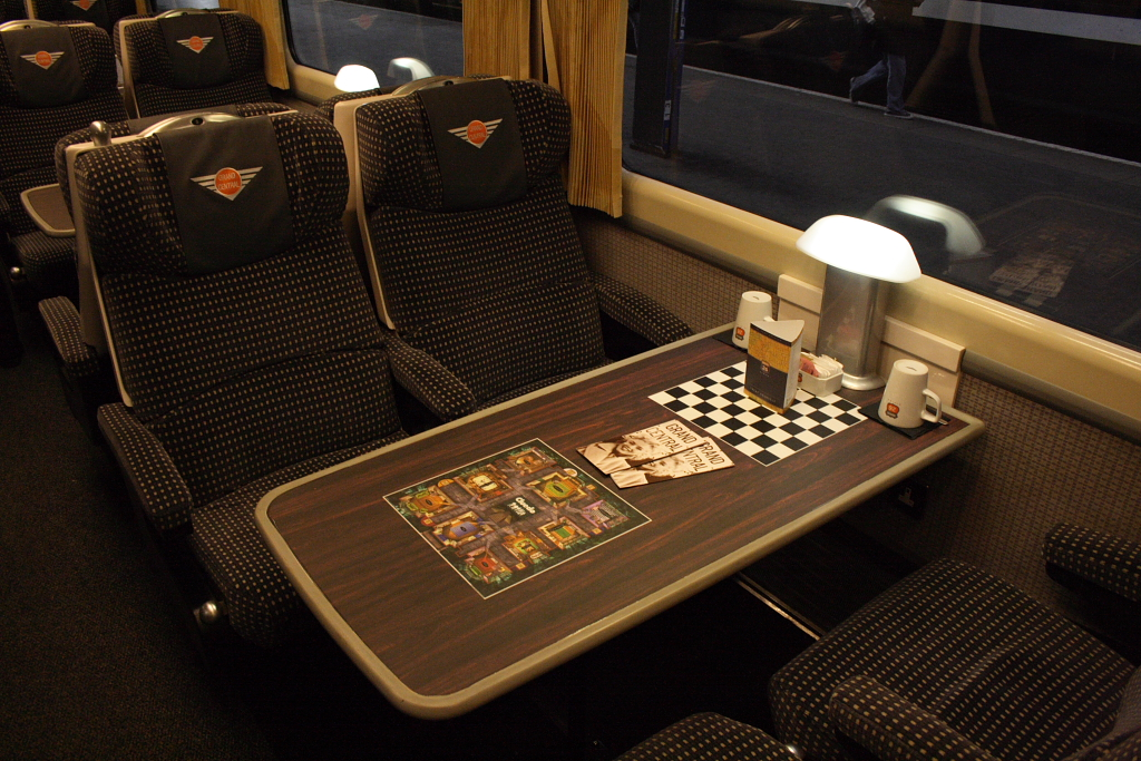 Interior of Grand Central Railway first class British Rail Mark 3 carriage taken at London King's Cross railway station. Photo shows the Chess and Cluedo boards printed on the tables.